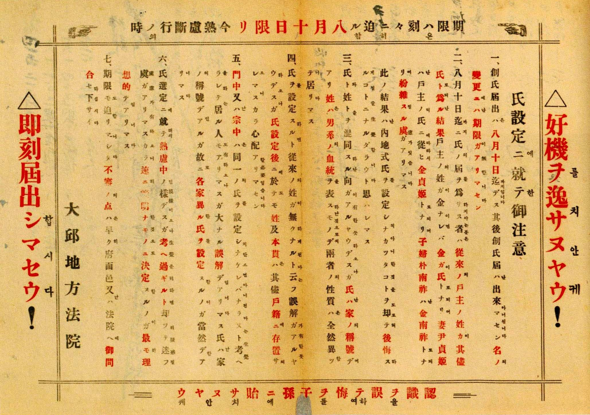 The Bulletin of Japanese Style Name Change by Taikyu (Daegu, Korea) Court while Japanese Occupation(1910-1945) of Korea. The printed script is a special style which mixed Japanese Kana and Korean Hangual and shared the Kanji/Hanja(Chinese Character)